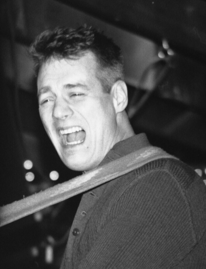 Meow Meow Portland, OR